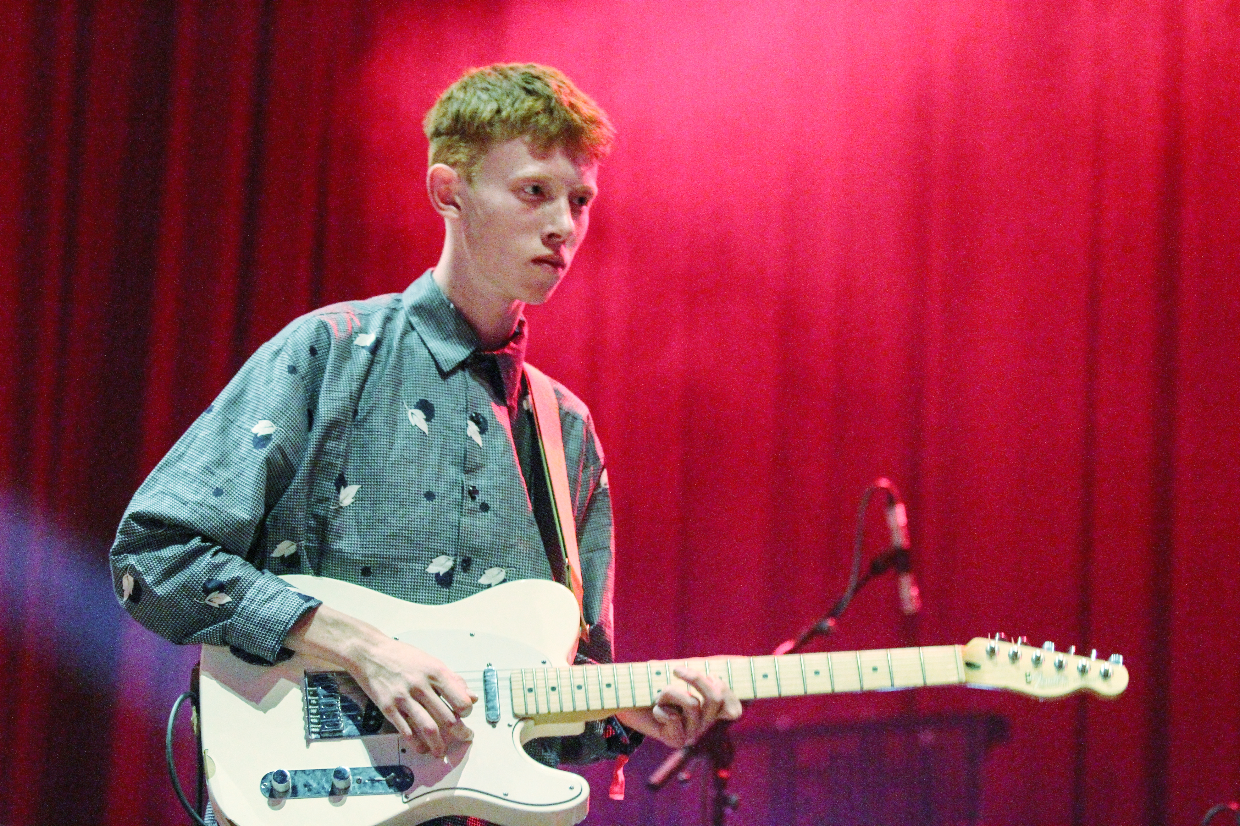 King Krule performing at Melt! Festival 2013